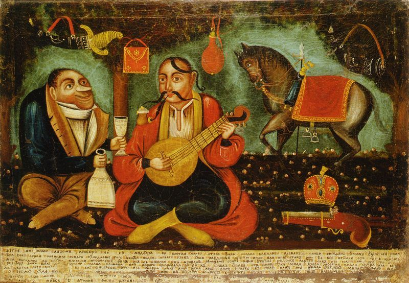 Unknown painter. "Cossack's conversation with a lach" (note that according to art-analysis in 1913 by Danylo Shcherbakivskyi the humorous reference to Polish "lach" is unlikely, given than neither his looks nor his cloths resemble those of a typical lach, thus this inscription "conversation with a lach" is likely from a later period). First half of XIX century. Linen, oil. 67х95 (Full dimension). National Art Museum of Ukraine